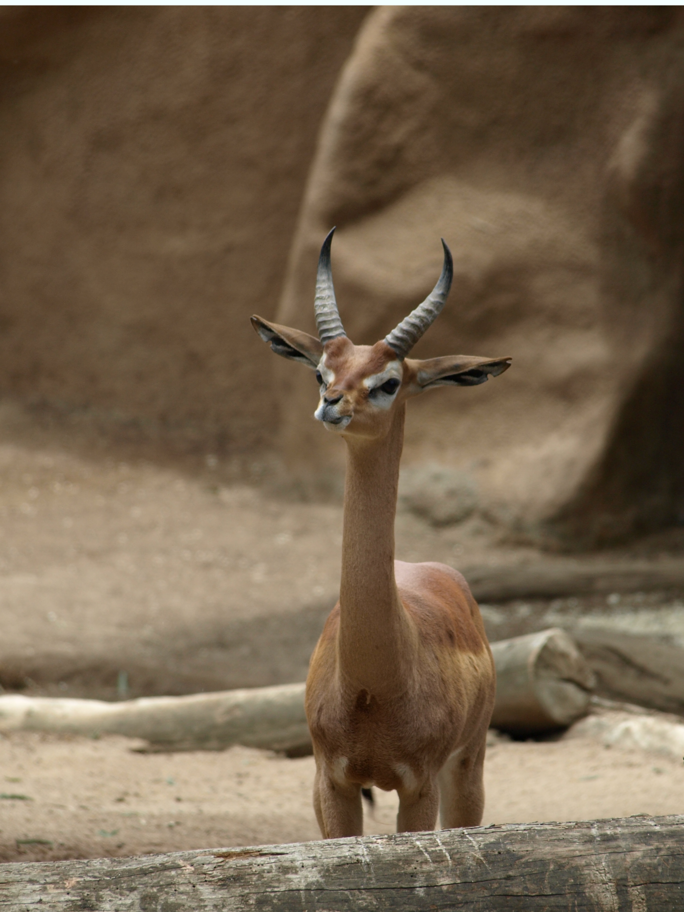 Wikispecies has an entry on: Litocranius walleri SUBJECT: Mature male Gerenuk ', sometimes called "Giraffe-necked Antelope", San Diego Zoo LOCATION: San Diego, California, USA CAMERA: Olympus E-410